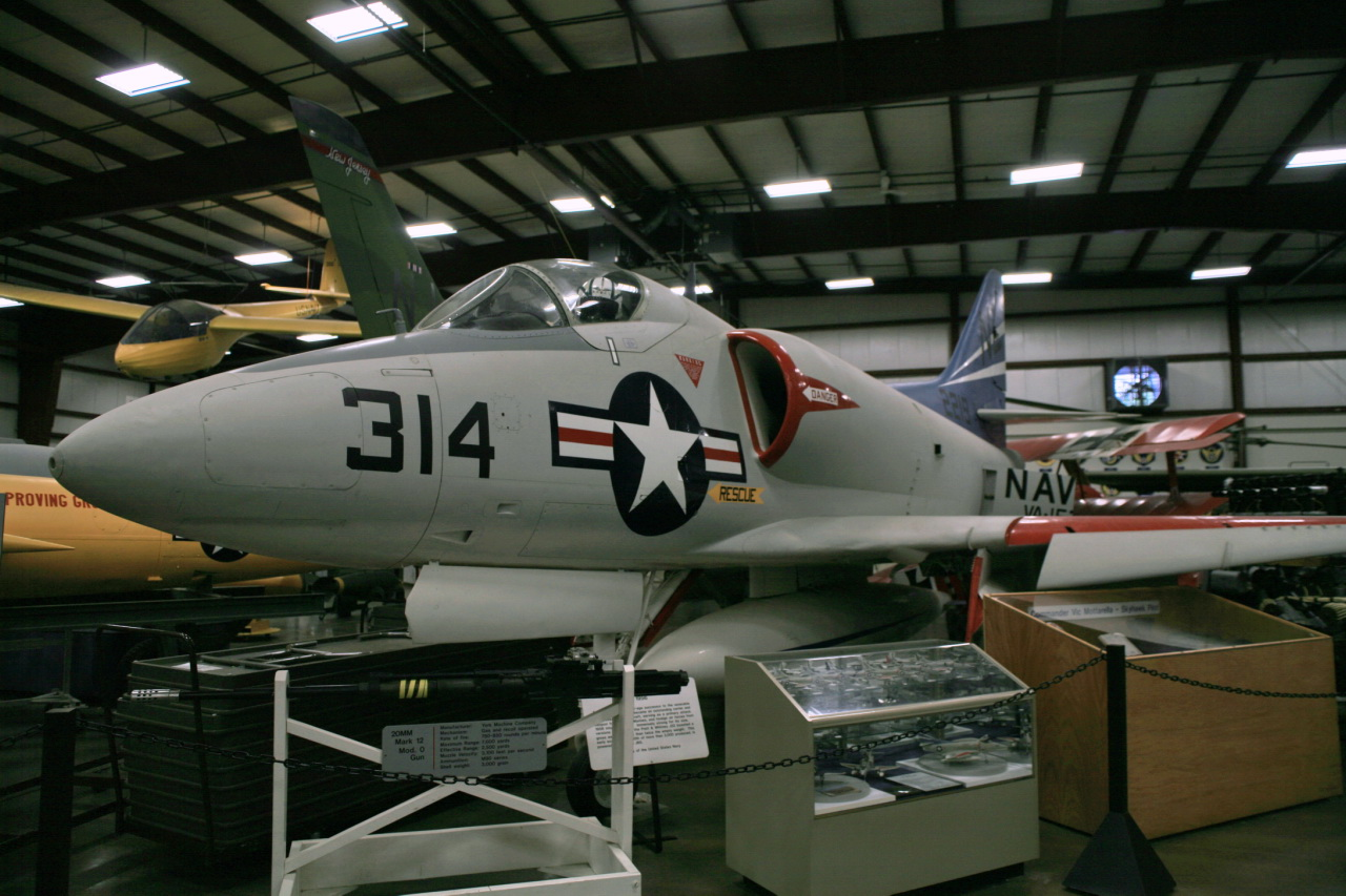 McDonnell Douglas A4D-1 Skyhawk - The aircraft was designed as a relatively simple, robust machine for close air support and air interdiction missions. The design was made as small as practical to minimize ground fire damage potential. Over 3000 have been built.